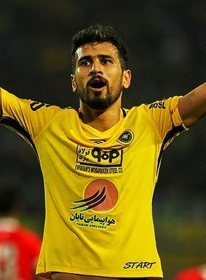 Sajjad Shahbazzadeh